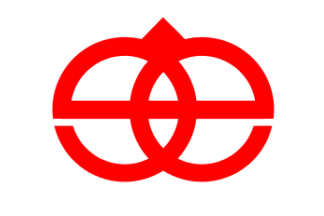 Flag of Akitsu Hiroshima